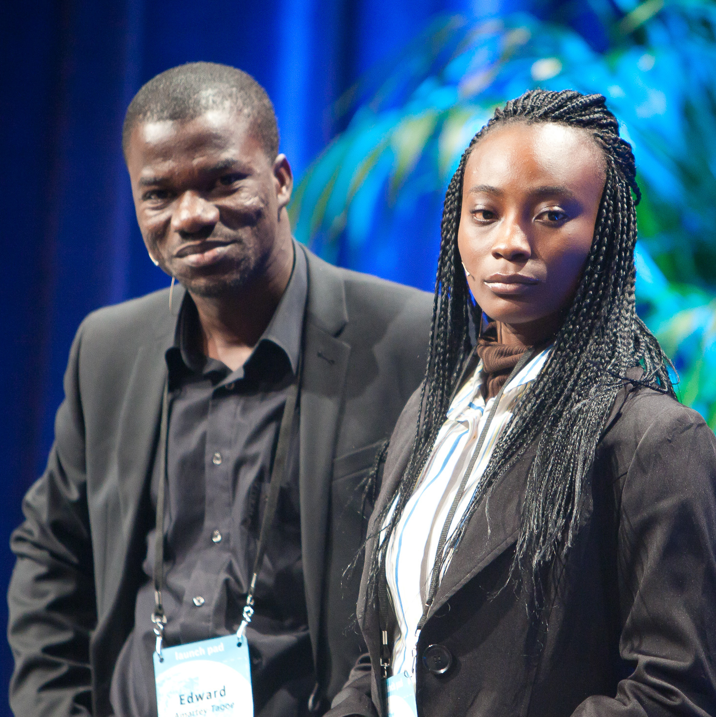 Anne Amuzu is a Ghanaian computer scientist and the co-founder of the technology company, Nandimobile Limited - here in 2011 Here with my Vancouver homeboys from checking out the new crop of startups.